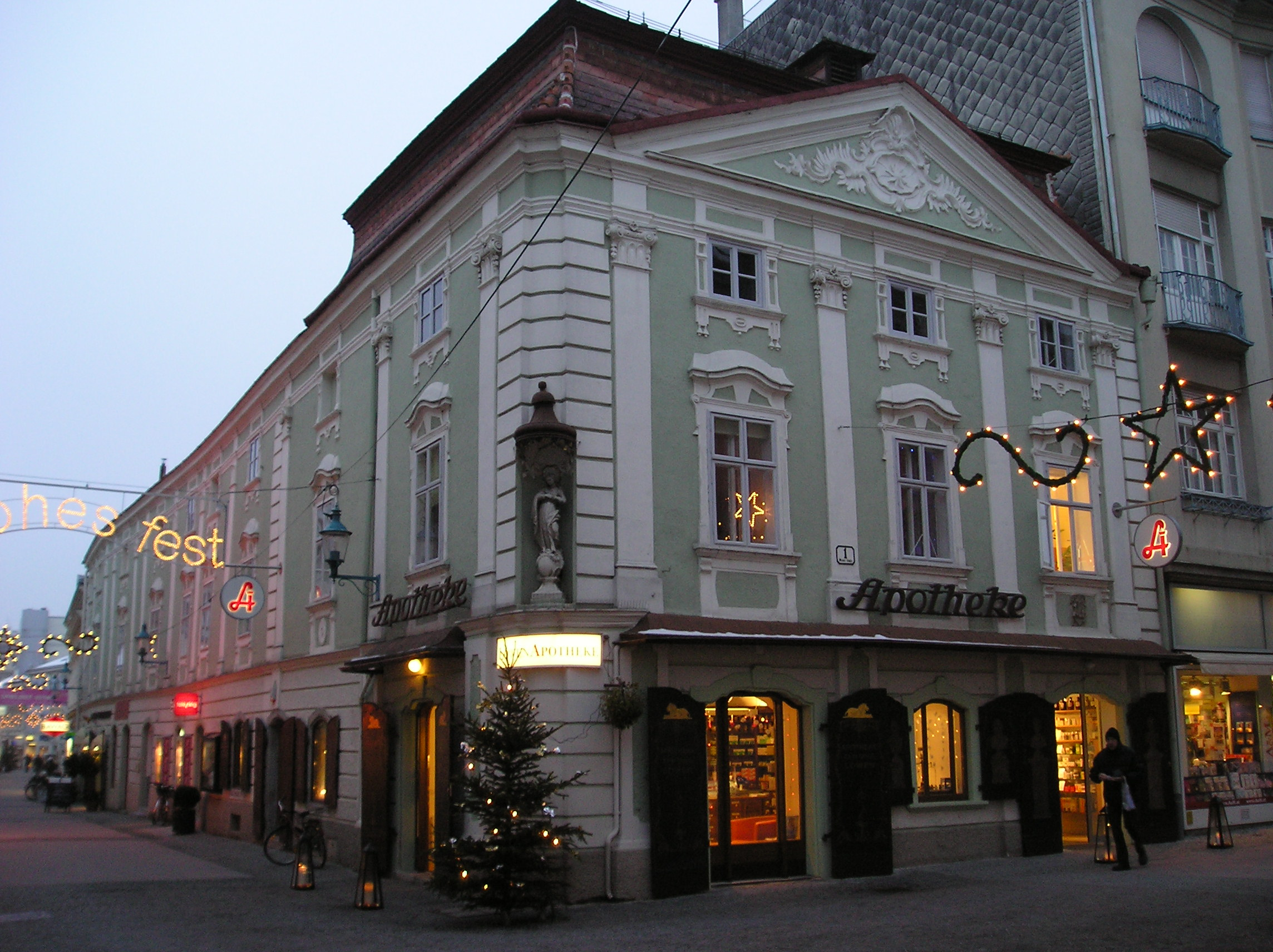 Pharmacy "Zum Goldenen Löwen" at St. Pölten in Austria